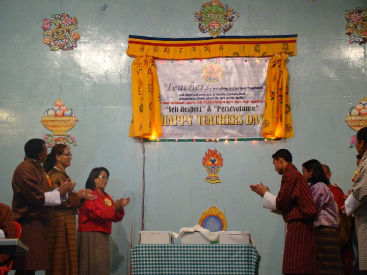 Celebrating 2nd May as Happy Teachers day in YHSS